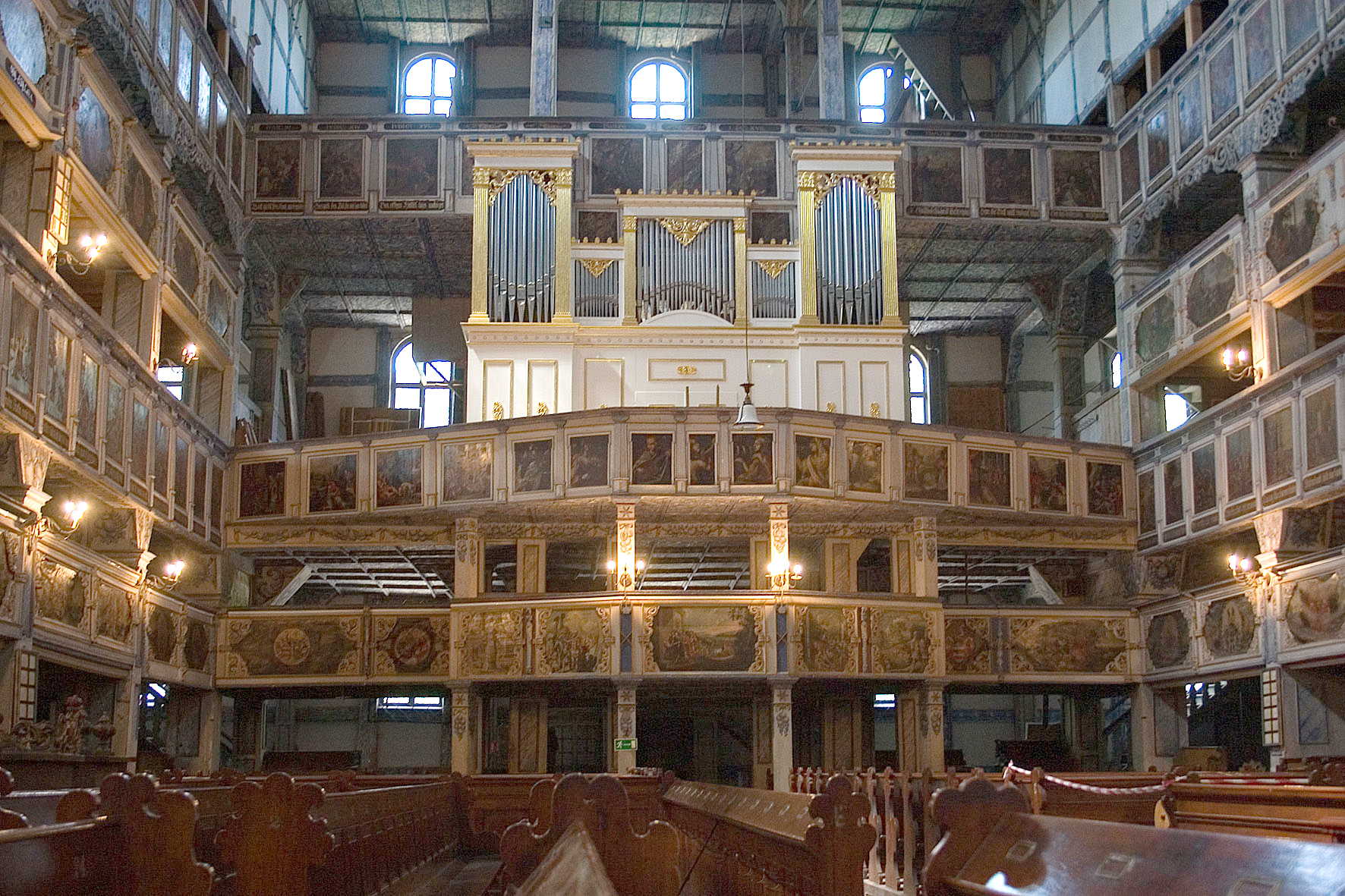 Church of Peace in Jawor, Poland Author: Adam Kumiszcza